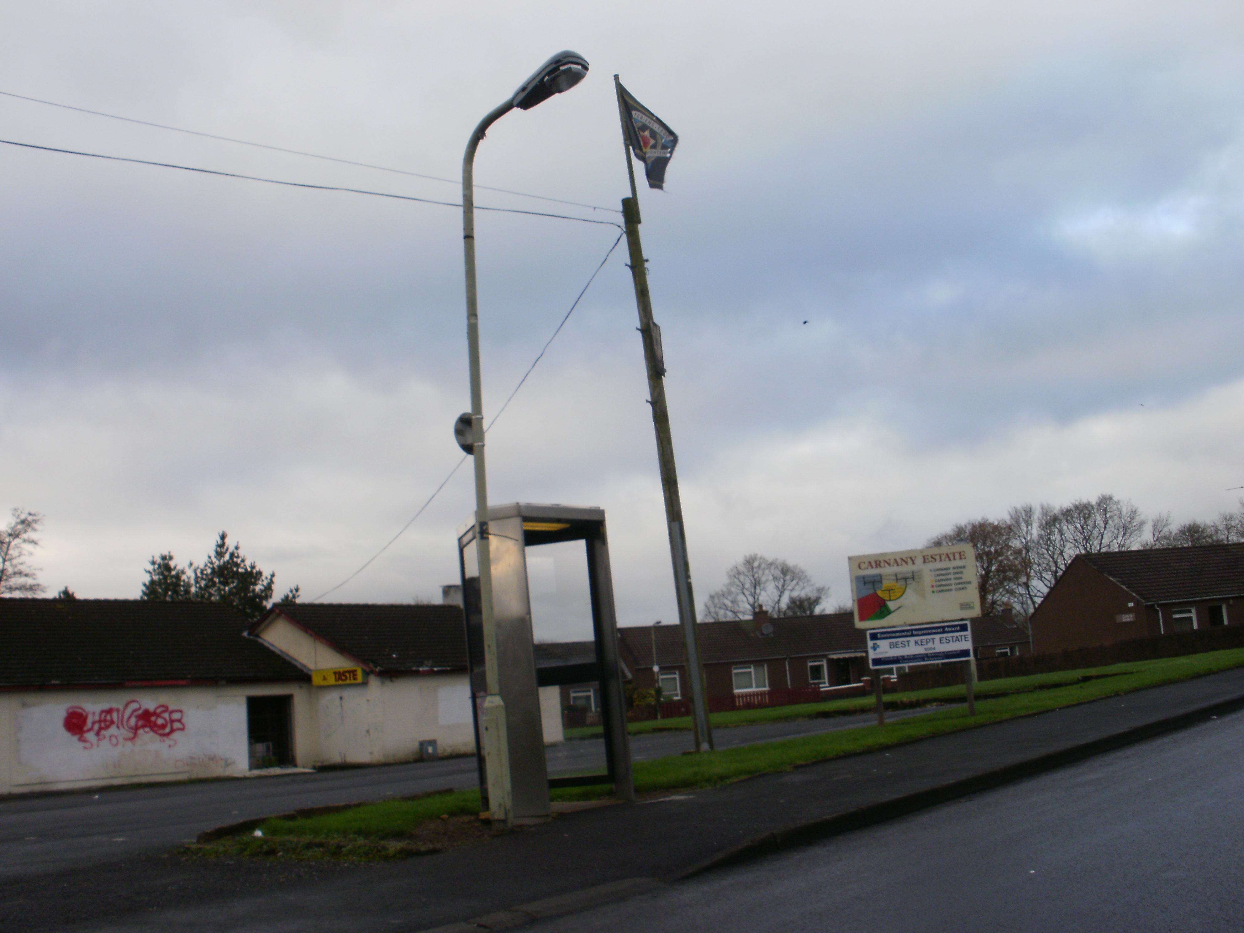 The entance to the Carnay Estate in Ballymoney,County Antrim,Northern Ireland.The flag flying on top of the pole is that of the loyalist paramilitary group the UFF.(Ulster Freedom Fighters)